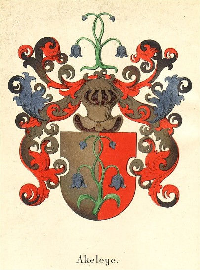 Coat of arms of the Akeleye family